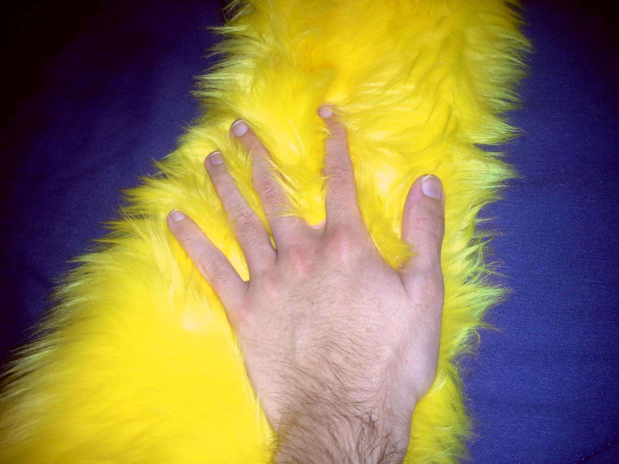 A hand rubbing yellow faux-fur